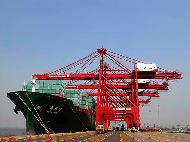 Jawaharlal Nehru Trust Port in Navi Mumbai, India. One can see unloaded trucks on the right heading for the harbor cranes, while loaded trucks on left head out. The ship in the image is Xin Fu Zhou.